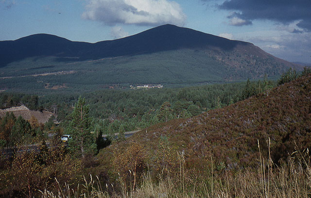 View towards Meall a' Bhuachaille From the car park inside the U bend in the road.